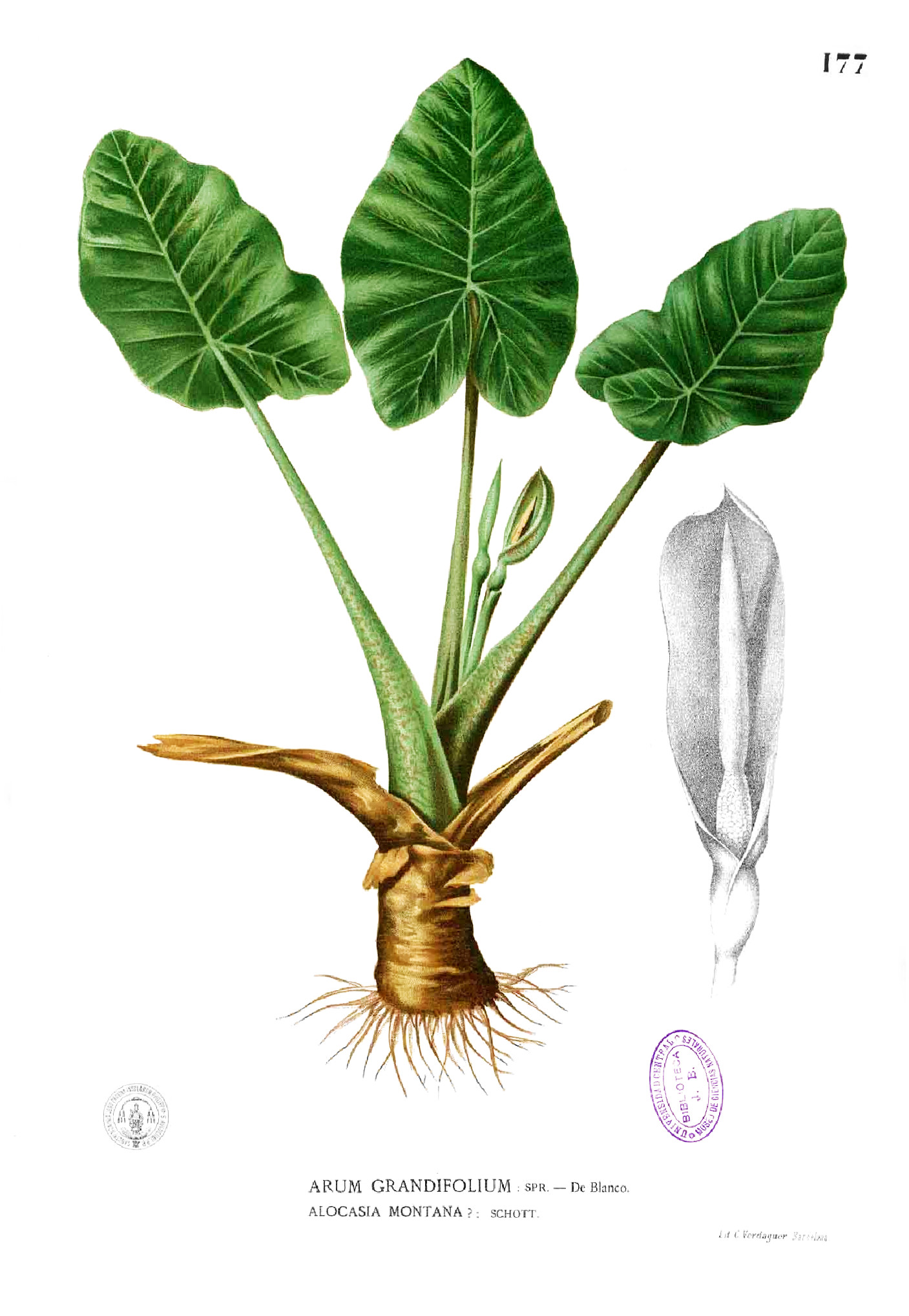 Plate from book